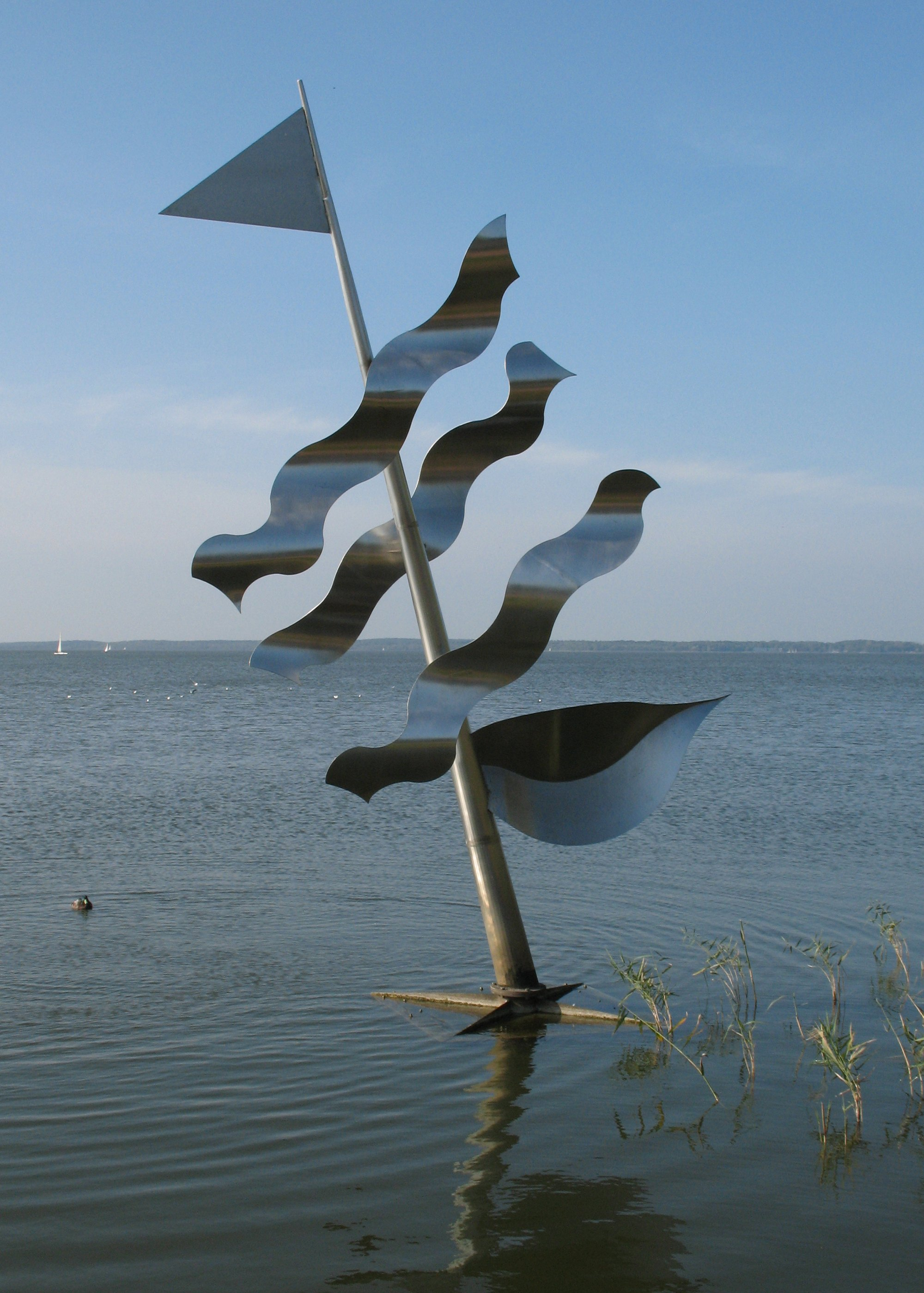 Sculpture (by Hans-Jürgen Zimmermann) and Steinhuder Meer in Wunstorf-Steinhude in Lower Saxony, Germany